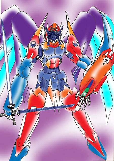 Mecha samurai. This one actually inspired by macross and rahxepon ^^